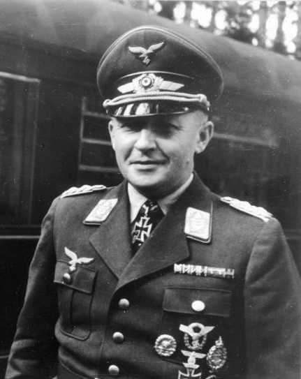 General der Fallschirmjäger Kurt Student (rechts) vor einem Eisenbahnwaggon stehend